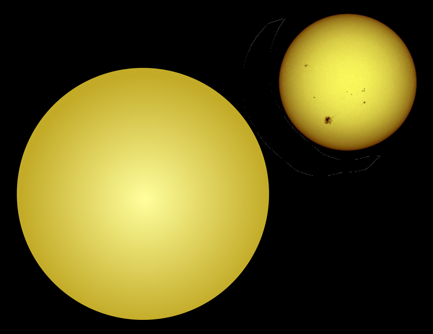 Kepler-7 (left) and sun (right) in scale.